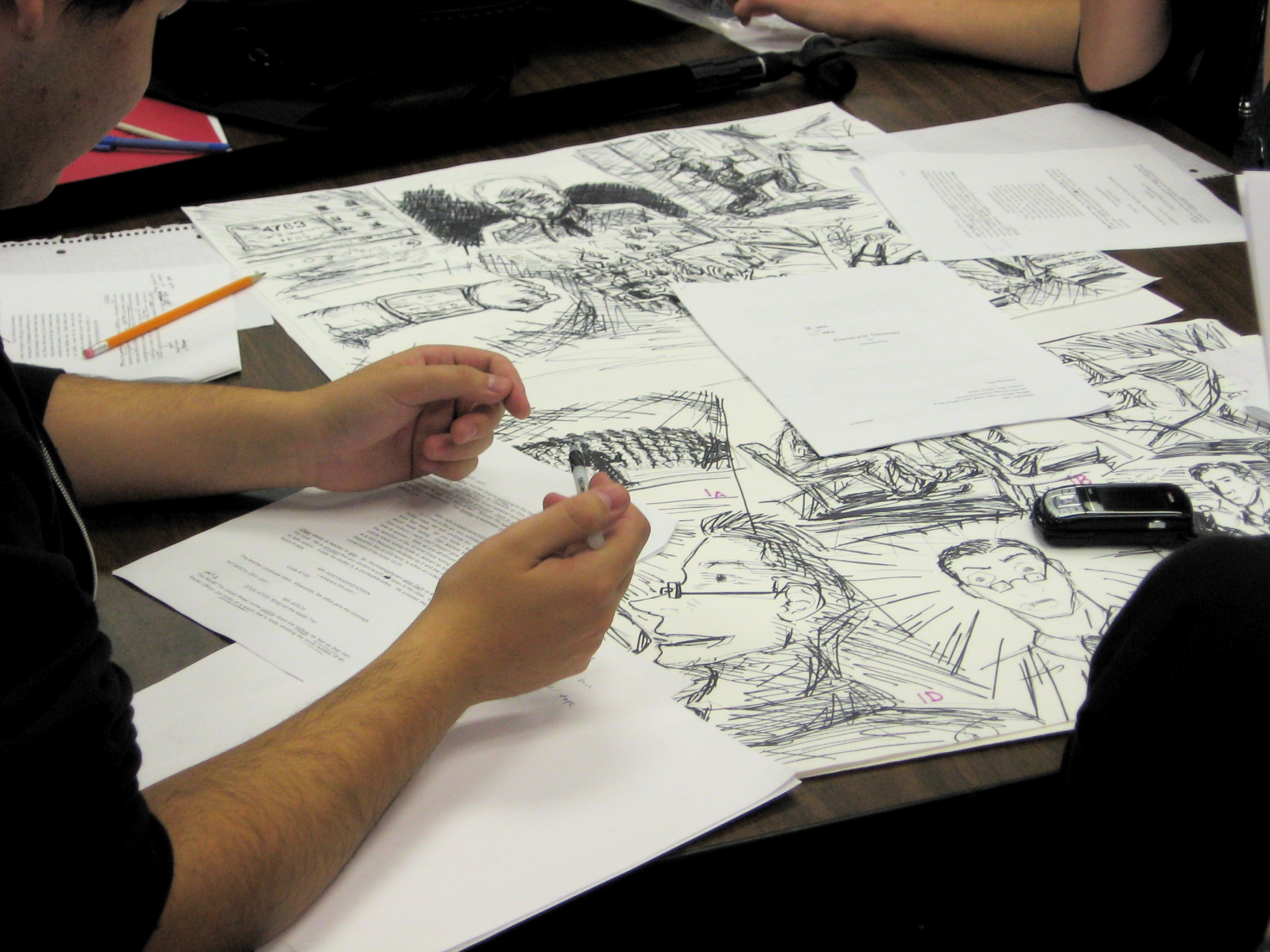 Darrin Fletcher this is a self created image this is a picture for ISM